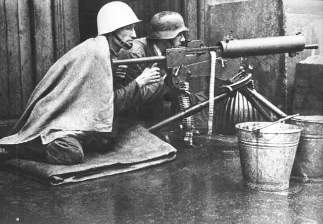 Warsaw Uprising: Insurgent Post with heavy machine gun on Elektryczna Street.